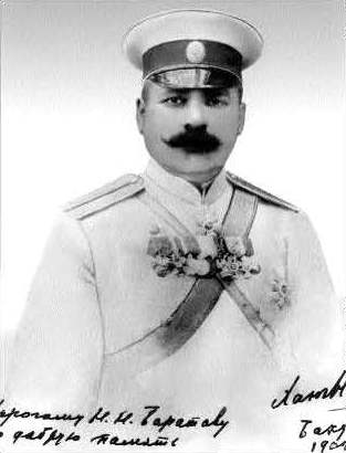 Adjutant General Huseyn Khan Nakhichevanski